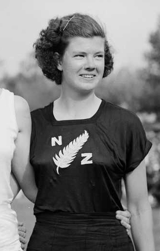 Winners of the women's 80-metres hurdles event in the 1950 British Empire Games at Eden Park, Auckland. Shows an Australian athlete (probably the winner of the gold medal) standing with two New Zealand athletes. Photograph taken in February 1950 by an Evening Post photographer.